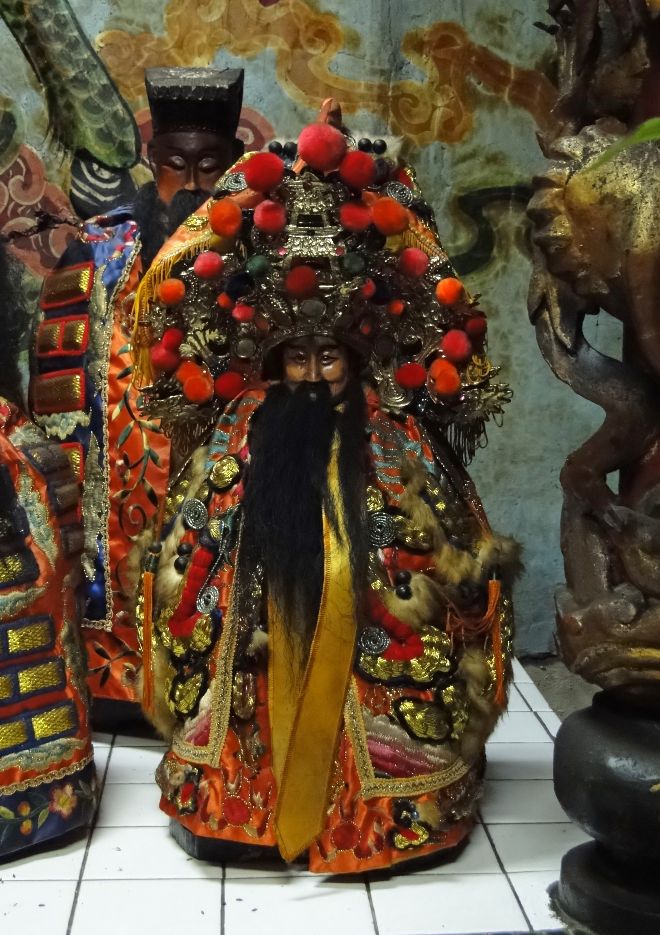 Statue of a Taoist deity inside a temple in Shuangxi District, Taiwan